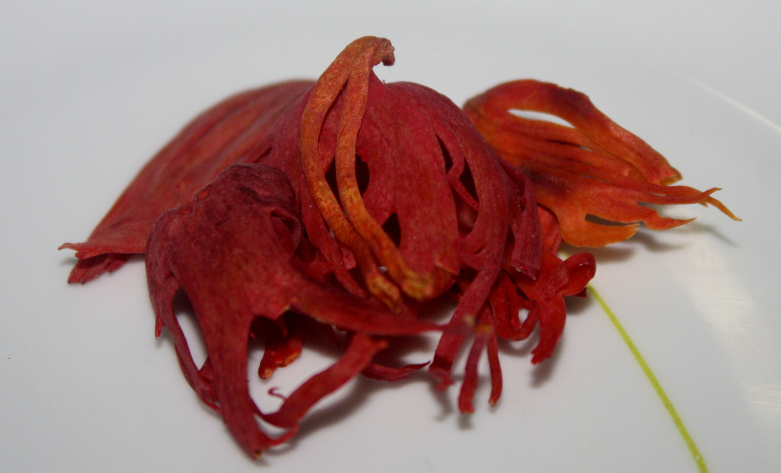 Mace (জয়িত্রি),Kolkata, West Bengal, India